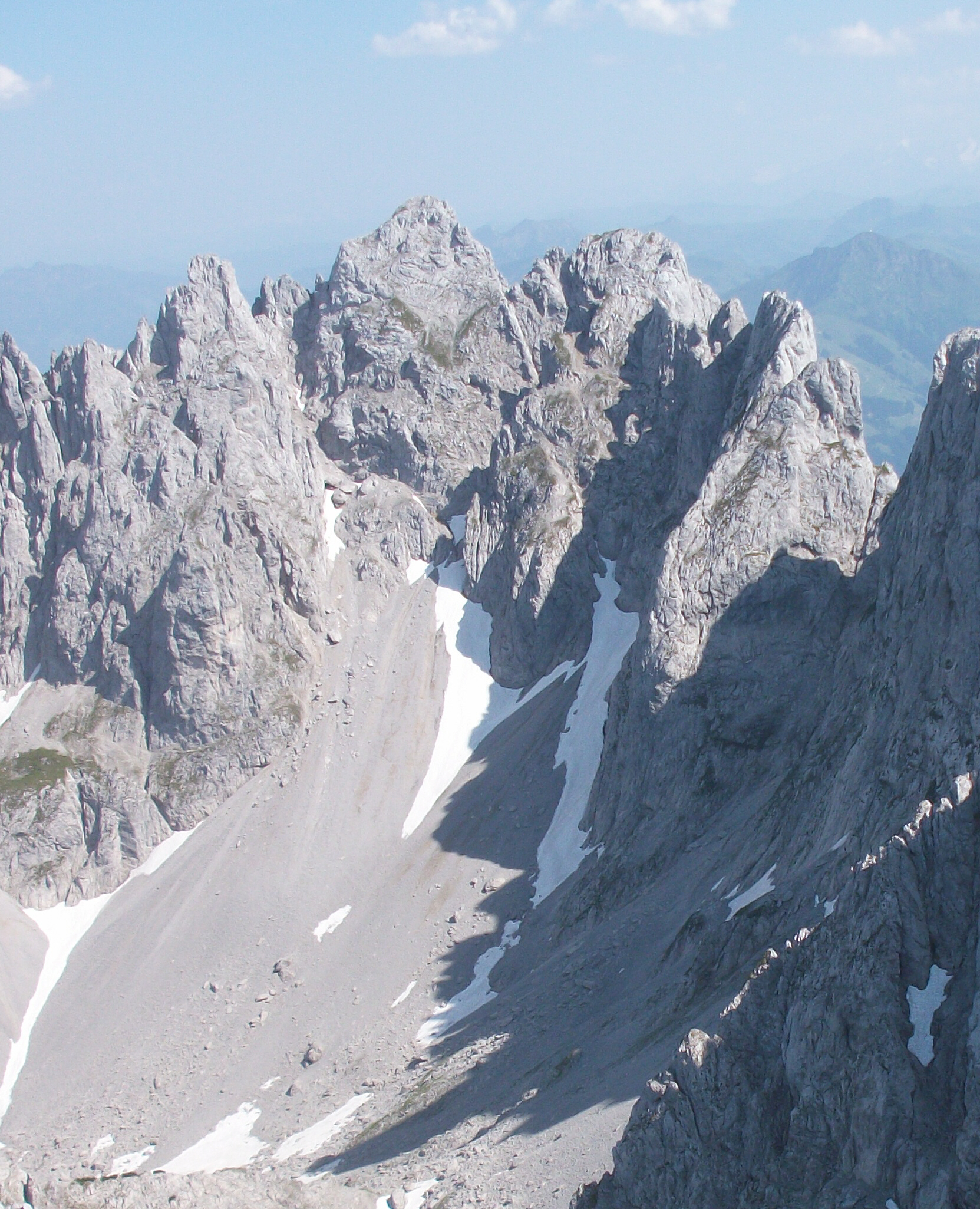 Regalmturm, Regalmspitze, Regalmwand Törlwand, Daumen, Kleines Törl